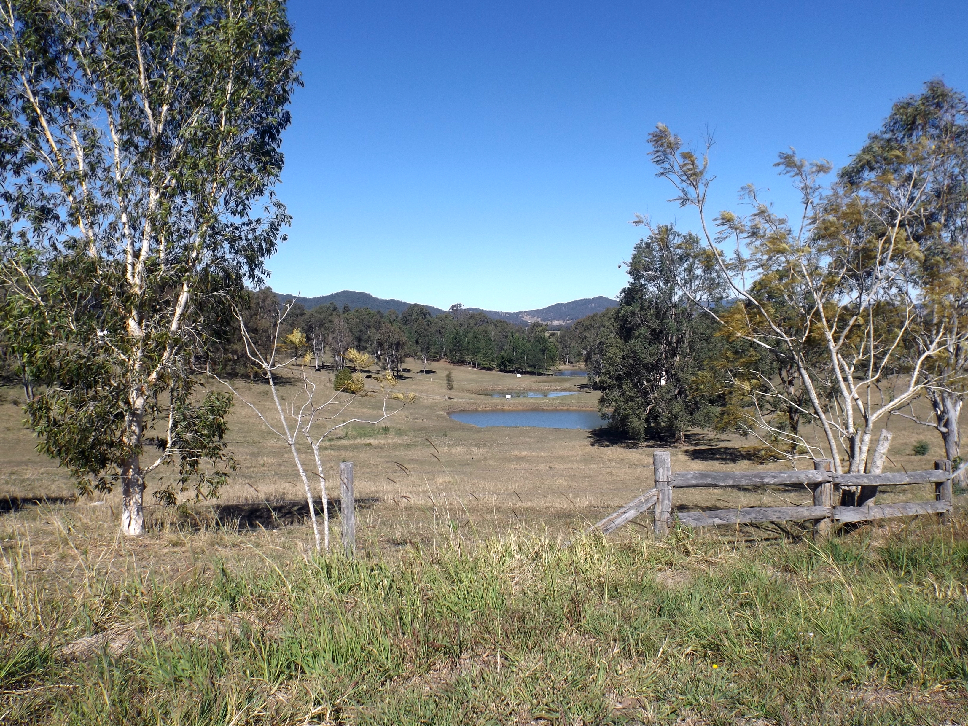 Photo of paddocks and dams along Sandy Creek Road at Sandy Creek, Somerset Region, Queensland, Australia.